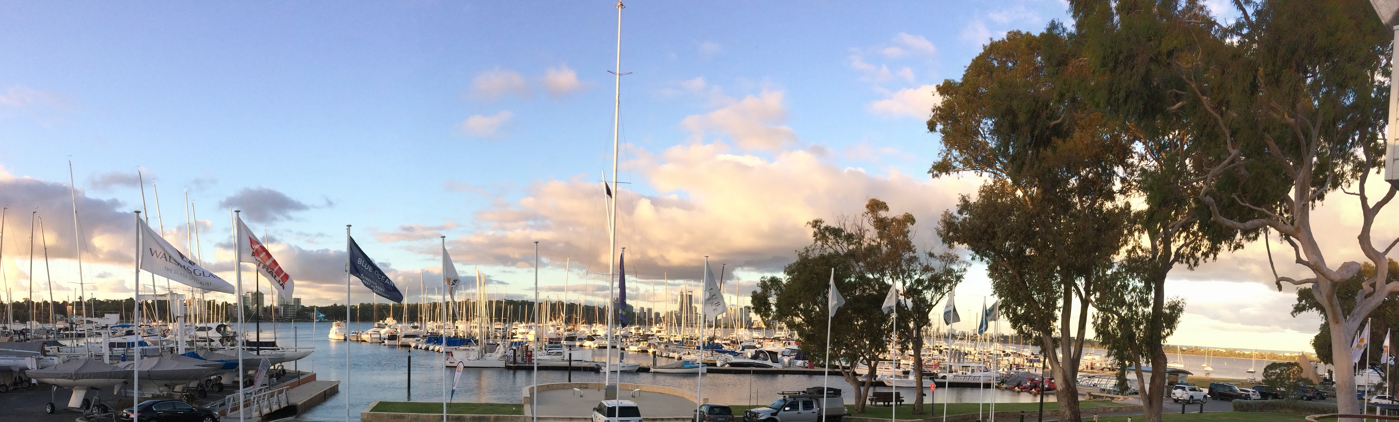 Royal Perth Yacht Club Panorama